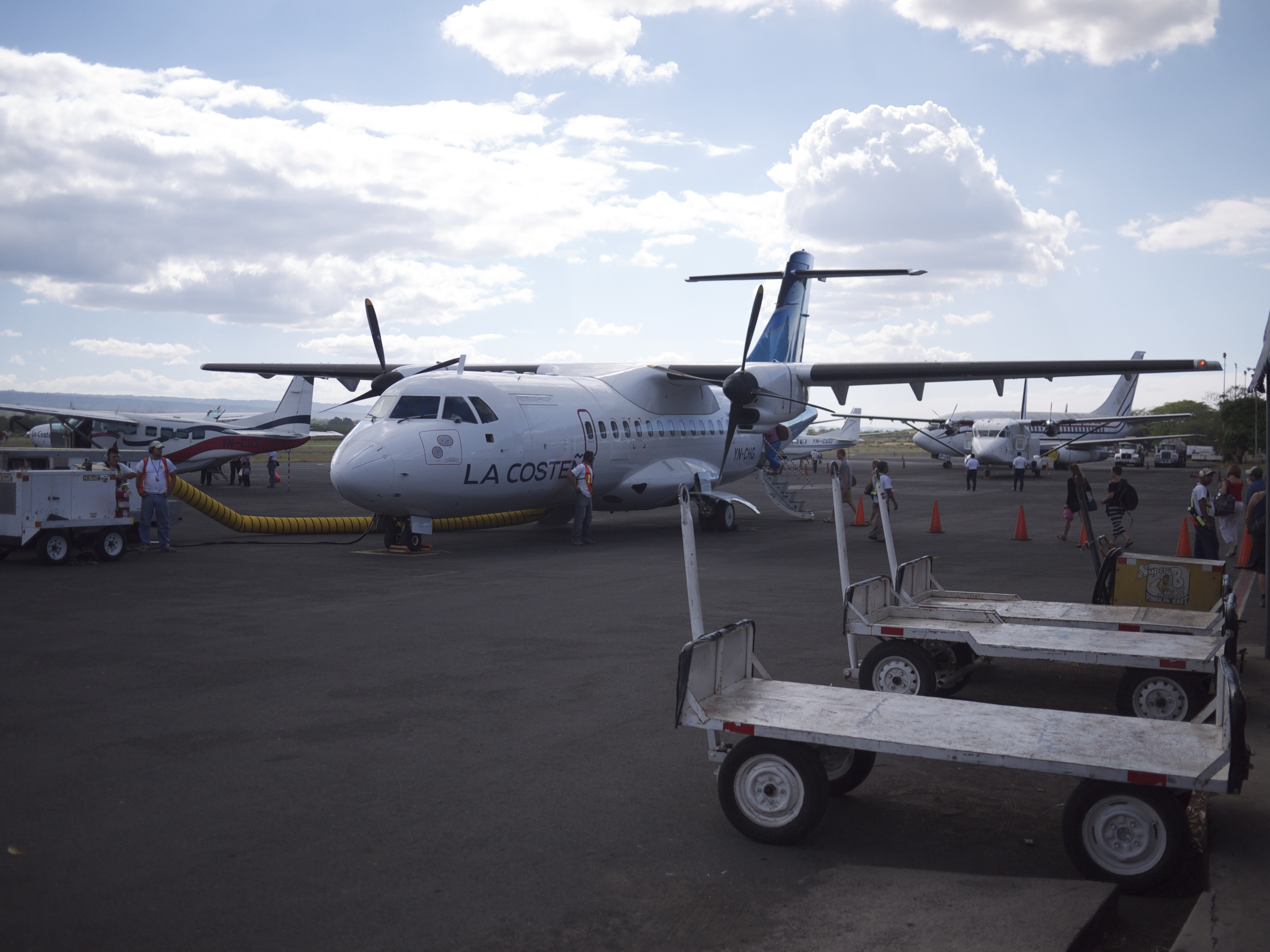 La Costeña aircraft at the Corn Island Airport in Nicaragua.